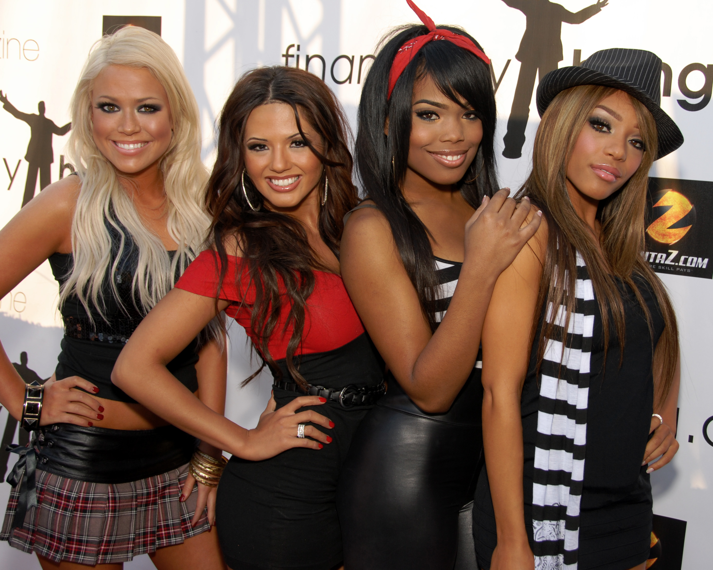 attending Super Bowl XLIII at the Playboy Mansion Los Angeles, CA on 02/01/09 - Photo by Glenn Francis of